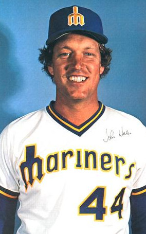 Professional baseball player John Hale